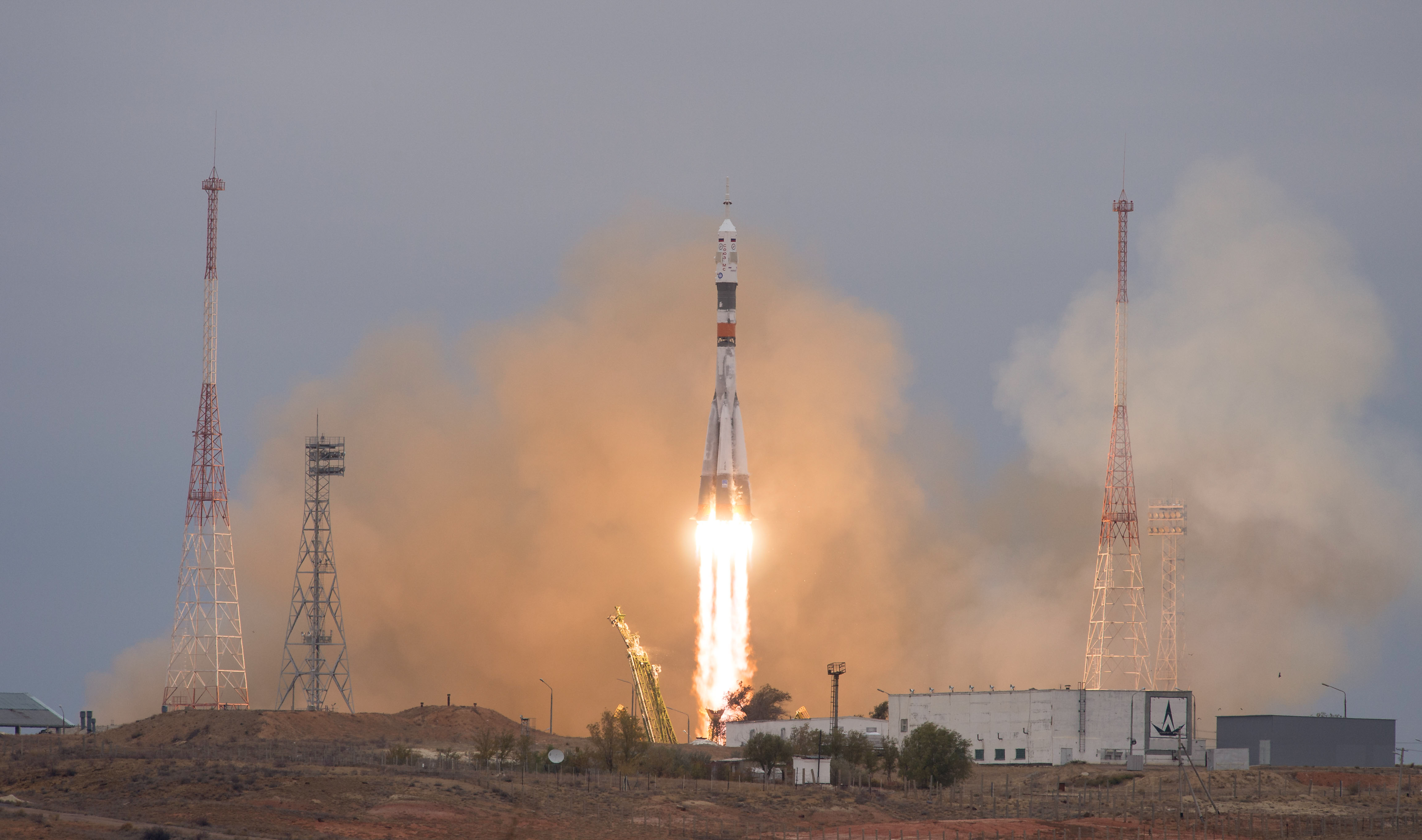 The Soyuz MS-02 rocket is launched with Expedition 49 Soyuz commander Sergey Ryzhikov of Roscosmos, flight engineer Shane Kimbrough of NASA, and flight engineer Andrey Borisenko of Roscosmos, Wednesday, Oct. 19, 2016 at the Baikonur Cosmodrome in Kazakhstan. Ryzhikov, Kimbrough, and Borisenko will spend the next four months living and working aboard the International Space Station.